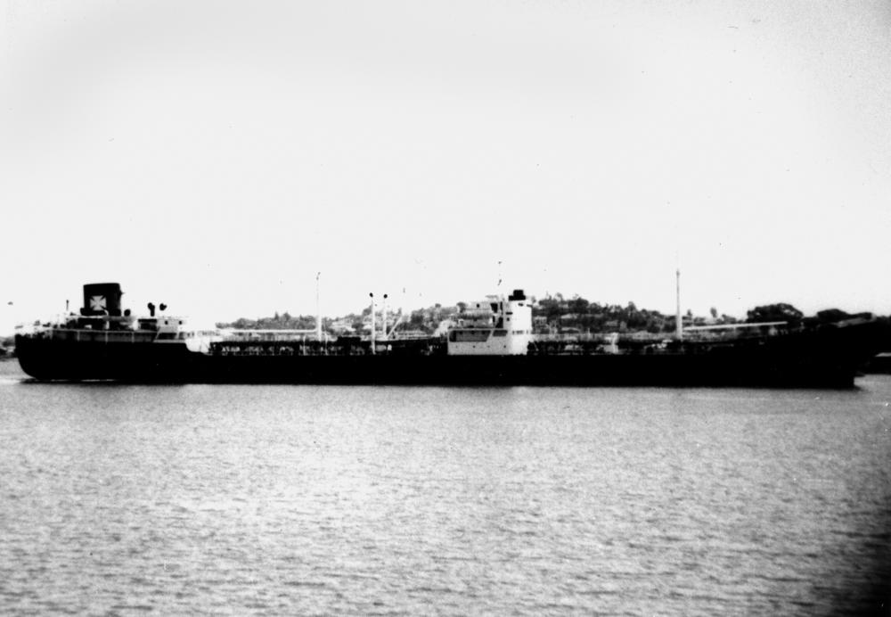 Imperial Transport (ship)